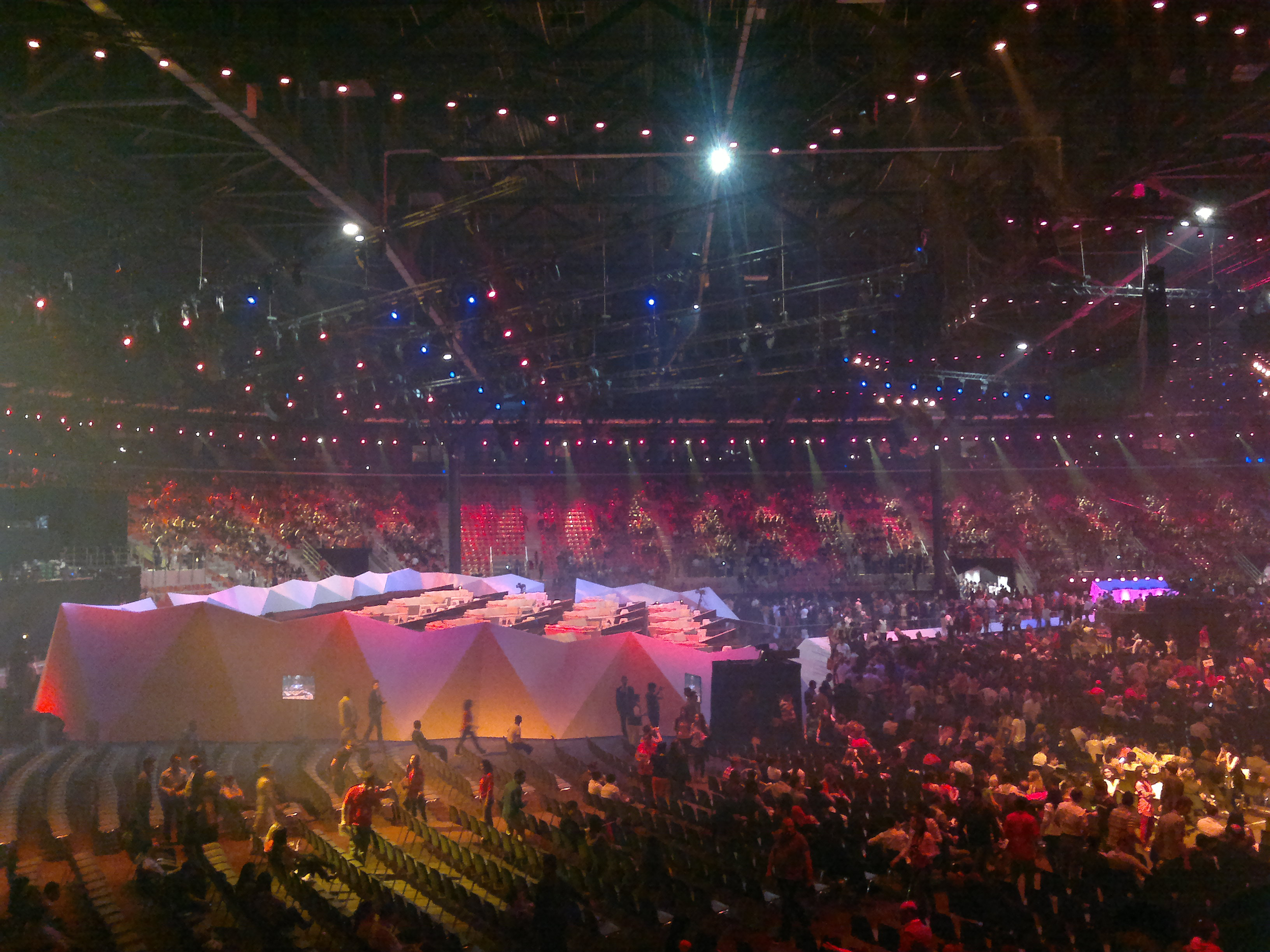 Green room for participants of Eurovision 2012. Baku Crystall Hall